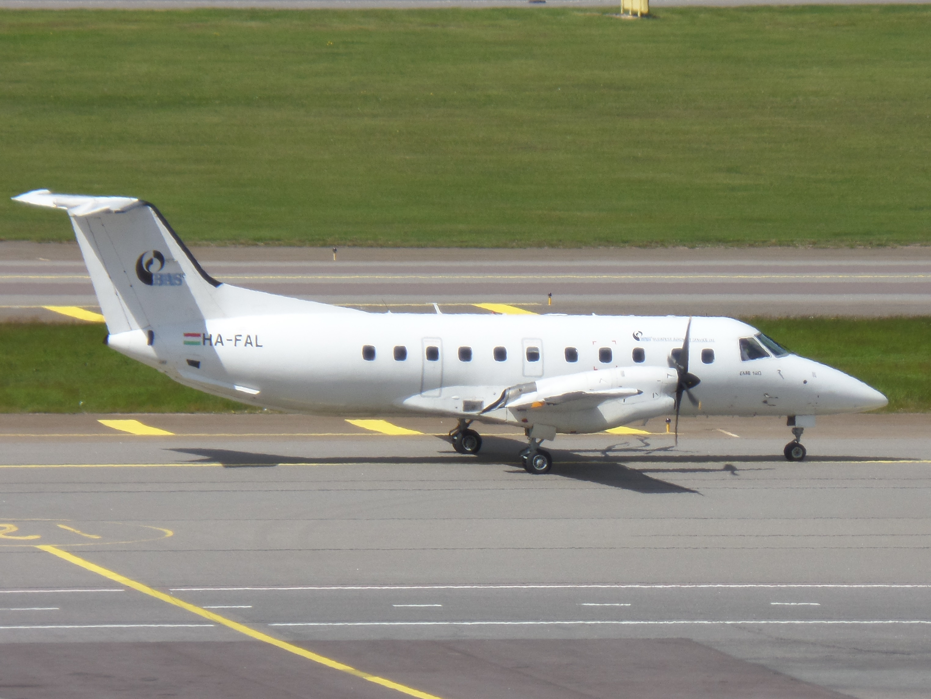 BASe Airlines (Budapest Aircraft Service) Embraer EMB-120ER Brasilia HA-FAL at Helsinki-Vantaa Airport on 5 June, 2015.